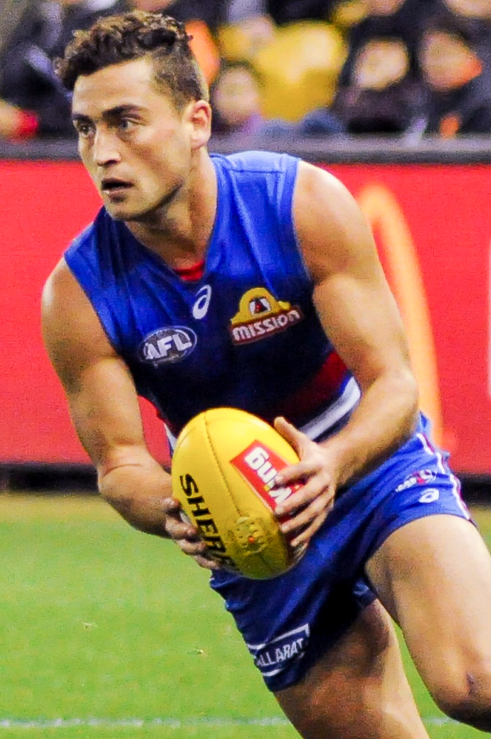 Luke Dahlhaus during the AFL round thirteen match between the Western Bulldogs and Melbourne on 18 June 2017 at Etihad Stadium in Melbourne, Victoria.